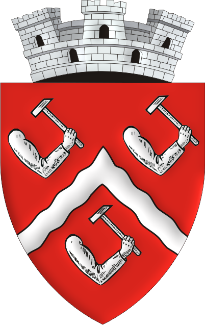 Coat of arms of Târgu Ocna, Romania